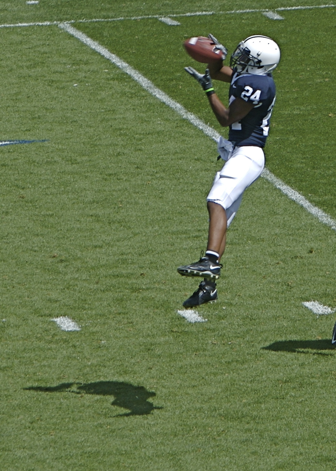 Jordan Norwood makes leaping grab.